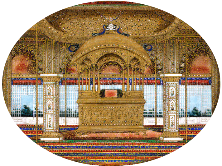 This painting depicts the Peacock Throne(?) in the Diwan-i-Khas of the Red Fort of Delhi. One of Sixteen views of monuments in Delhi, Agra, Amritsar, Lucknow and South India. This painting was transferred from the India museum, 1879. Watercolour on ivory. Victoria and Albert Museum number:03557(IS). Length: 5 cm, Width: 4.5 cm.